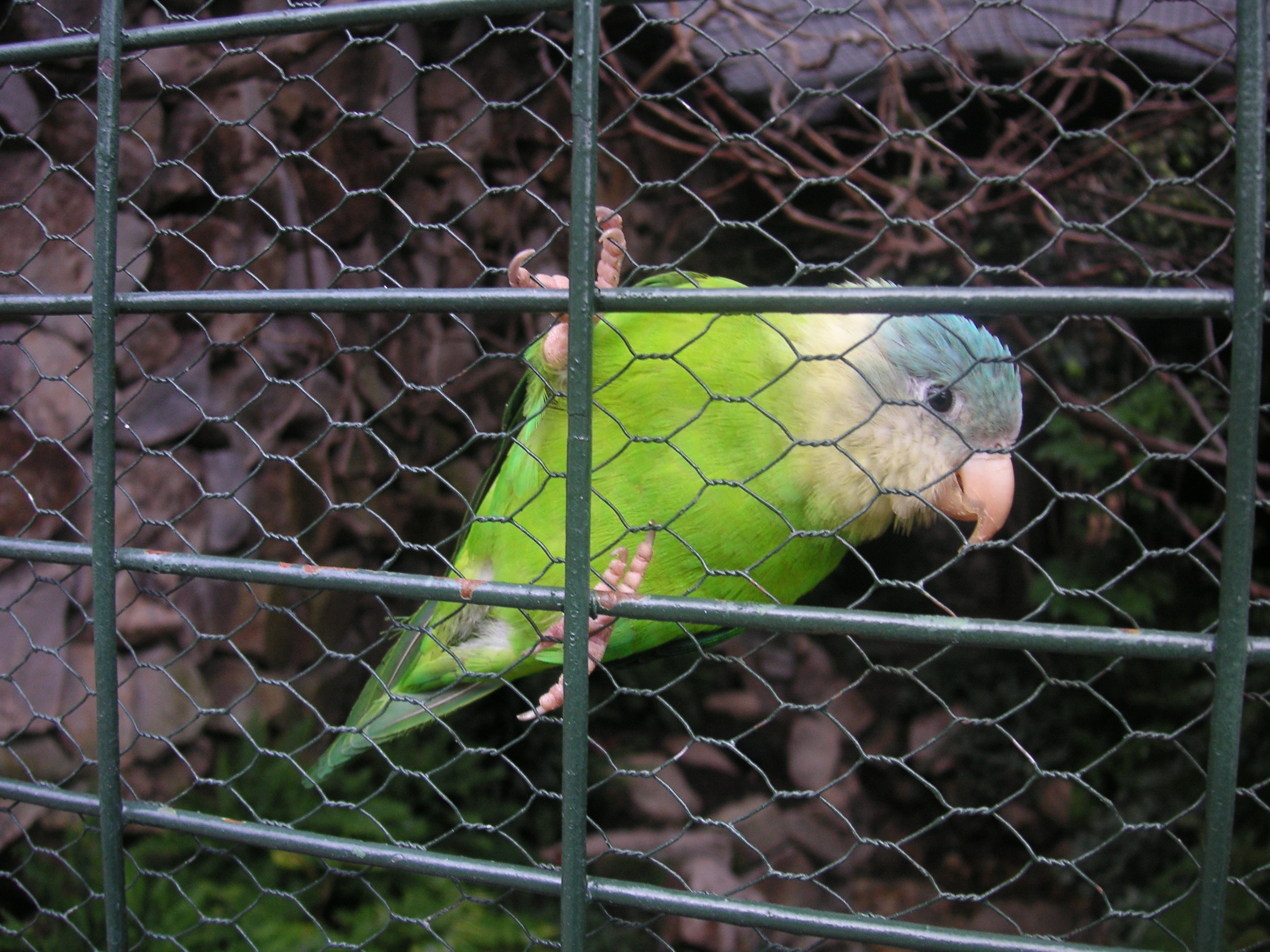 Grey-cheeked Parakeet (Brotogeris pyrrhoptera) in captivity in Cuenca, Ecuador.